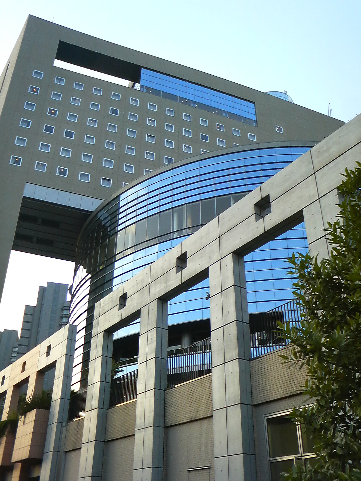 RAFRE SAITAMA